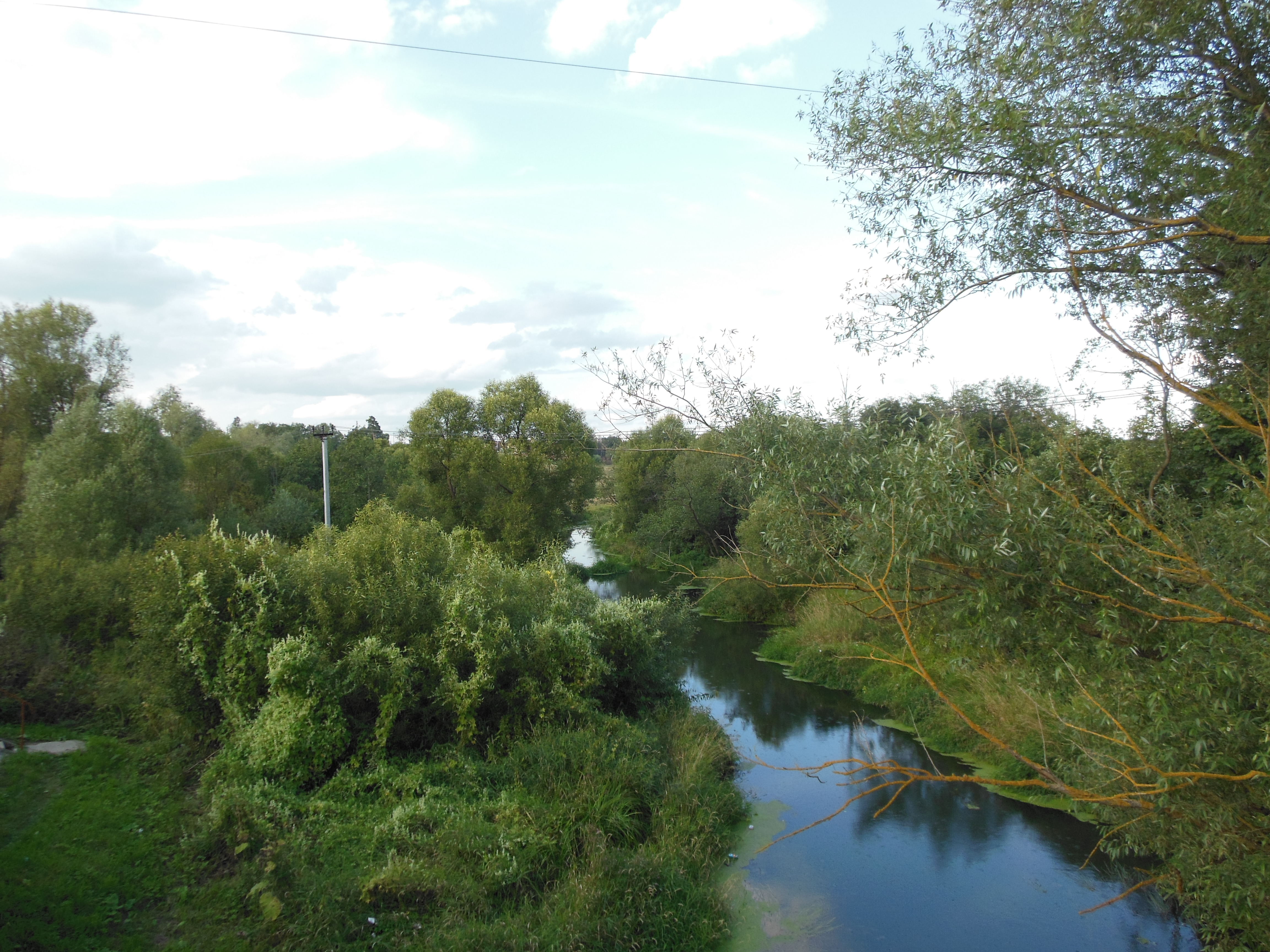 Maglusha river, Russia.